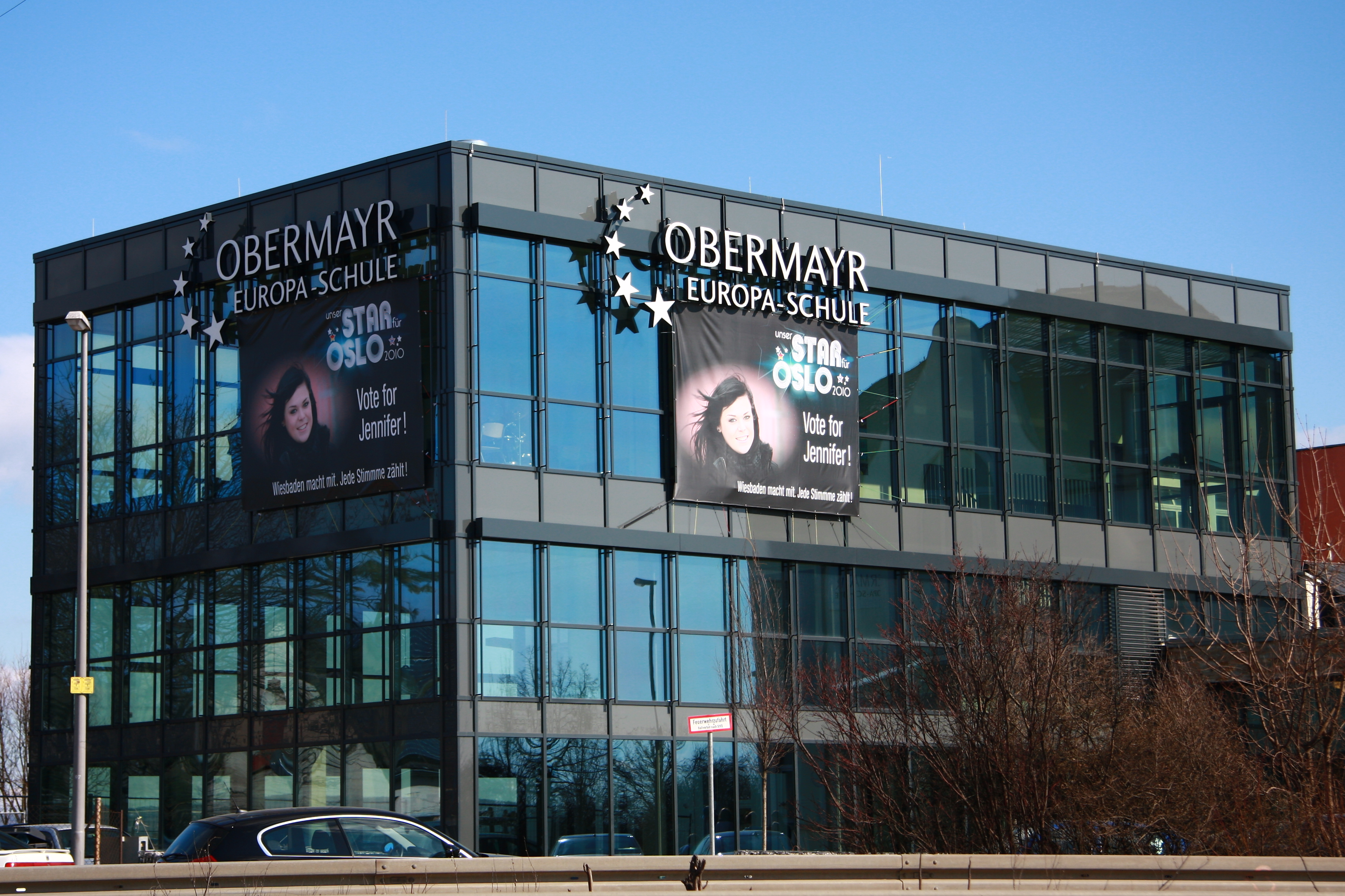 A banner for Jennifer Braun, runner-up in the contest Germany in the Eurovision Song Contest 2010